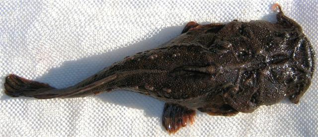 Chaca chaca collected in Arunachal Pradesh, India.